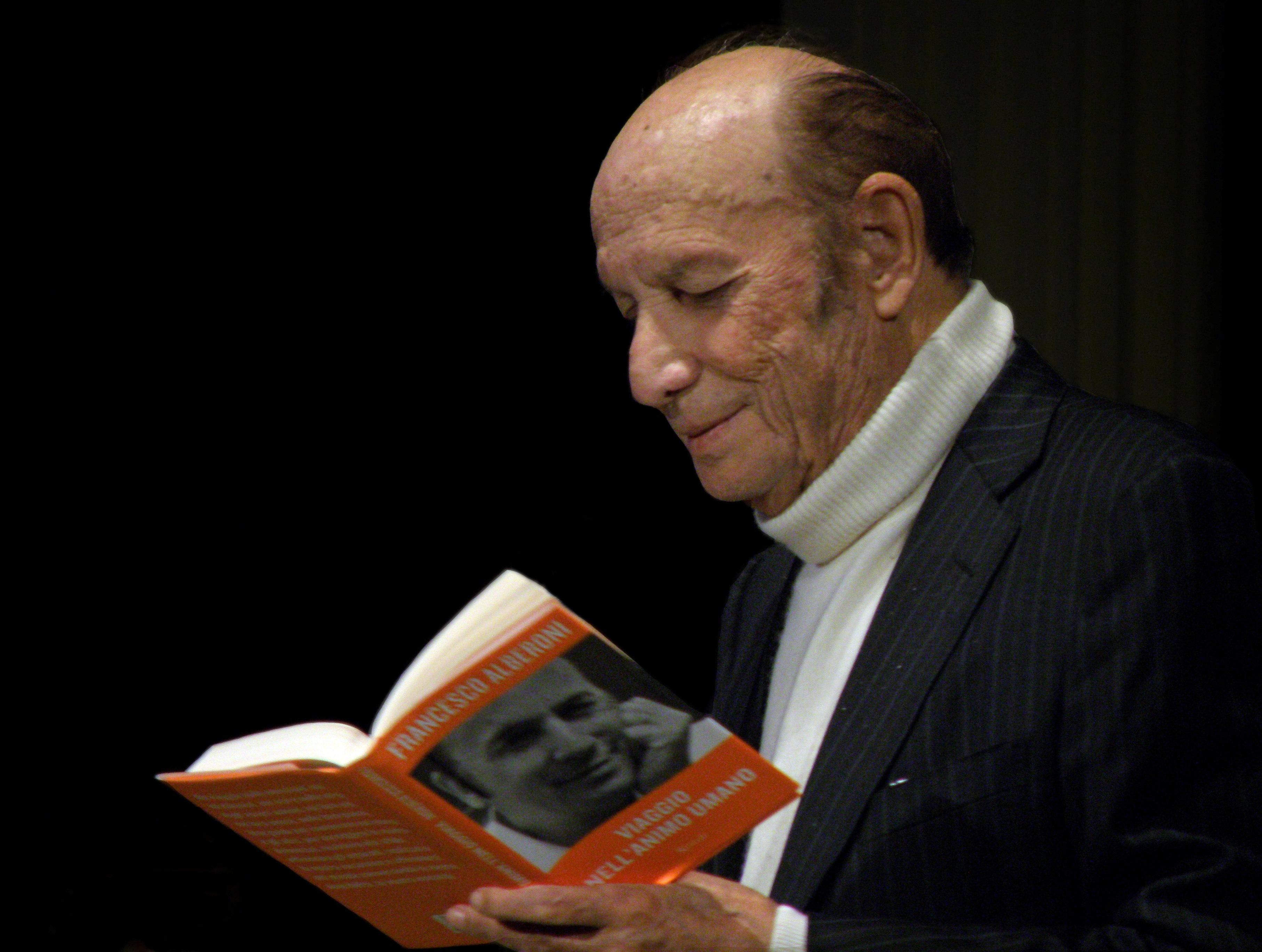 Francesco Alberoni, an Italian journalist and a professor of sociology, at the premiation of the 4th International Social Commitment Awards, at Teatro San Babila, Milan, Italy, 2012.